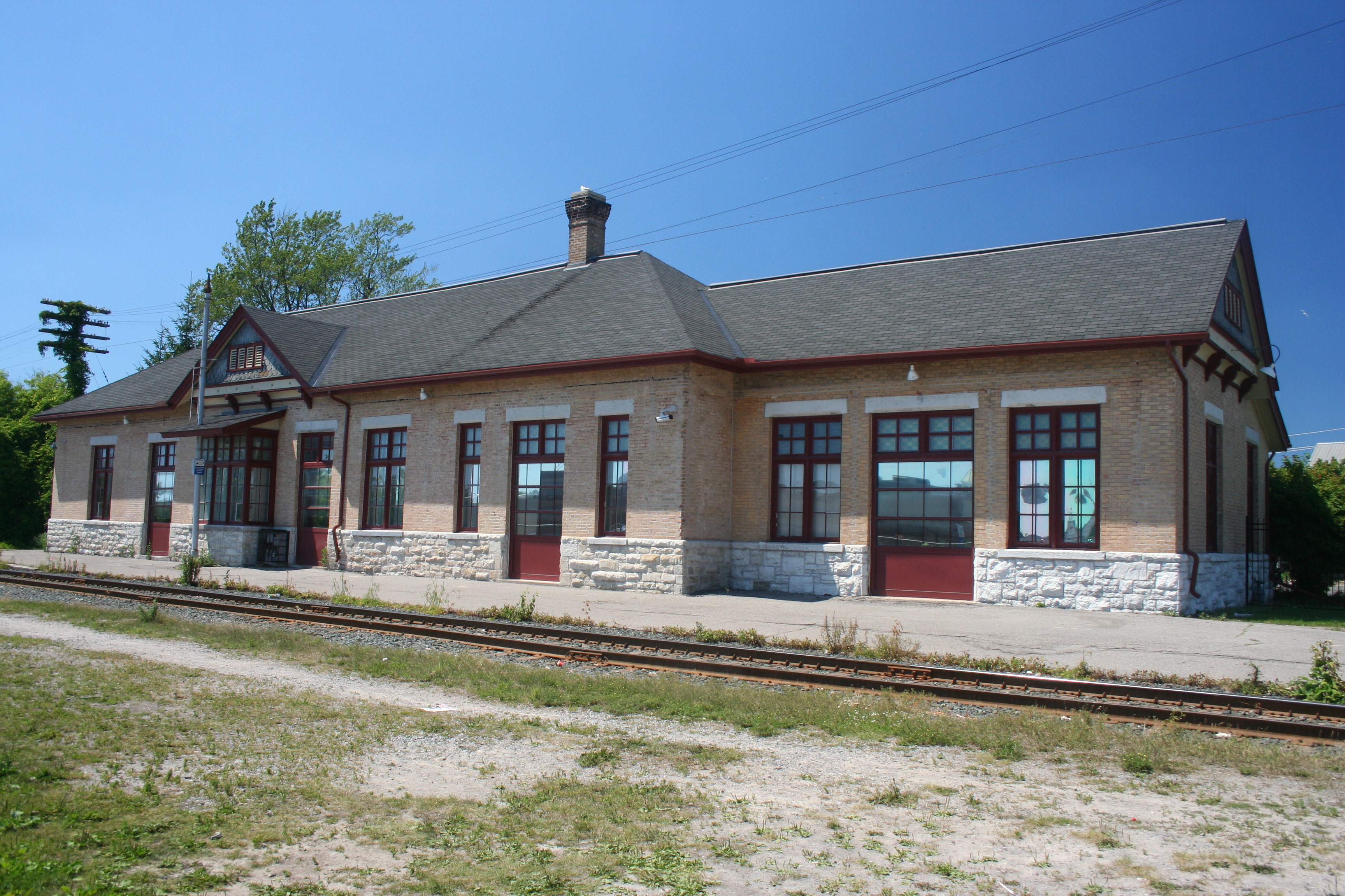 This line does not, at present, have passenger service. It was once the Canadian Pacific line linking Toronto and Ottawa. There is talk of restoring service between Peterborough and Toronto. The line extends east only to Havelock where it services a mine north of the town. The mine traffic is its only traffic.